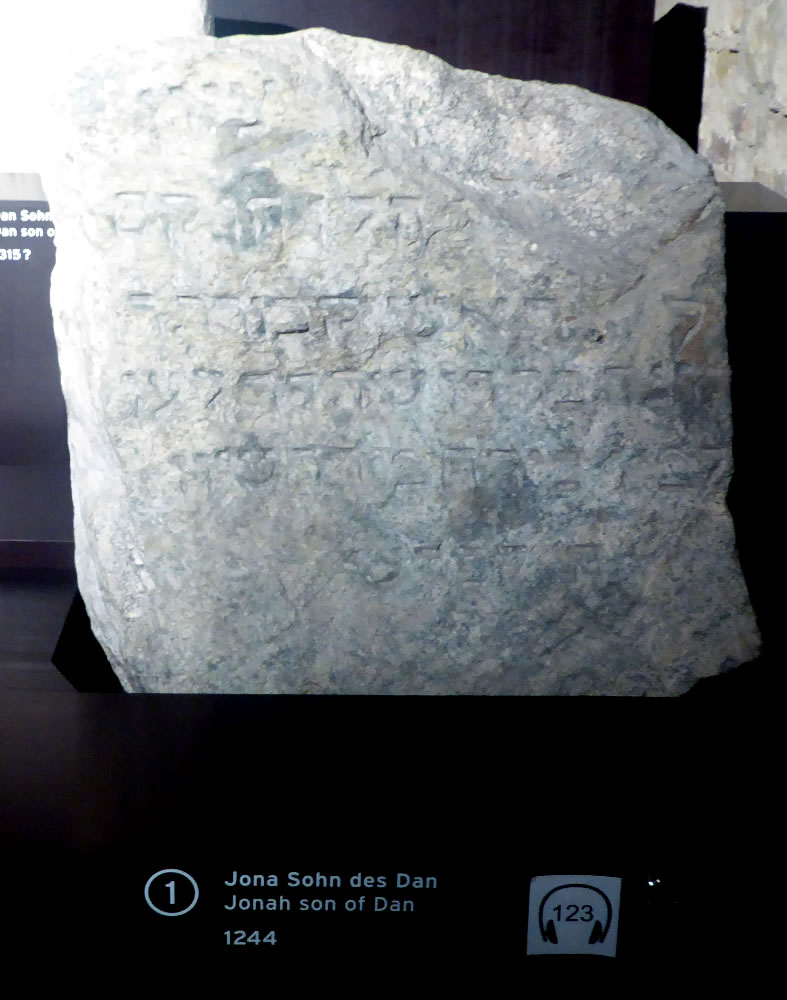 Tomb stone of Jonah, son of Dan, dated to 1244. On display in Zitadelle in Spandau, Berlin